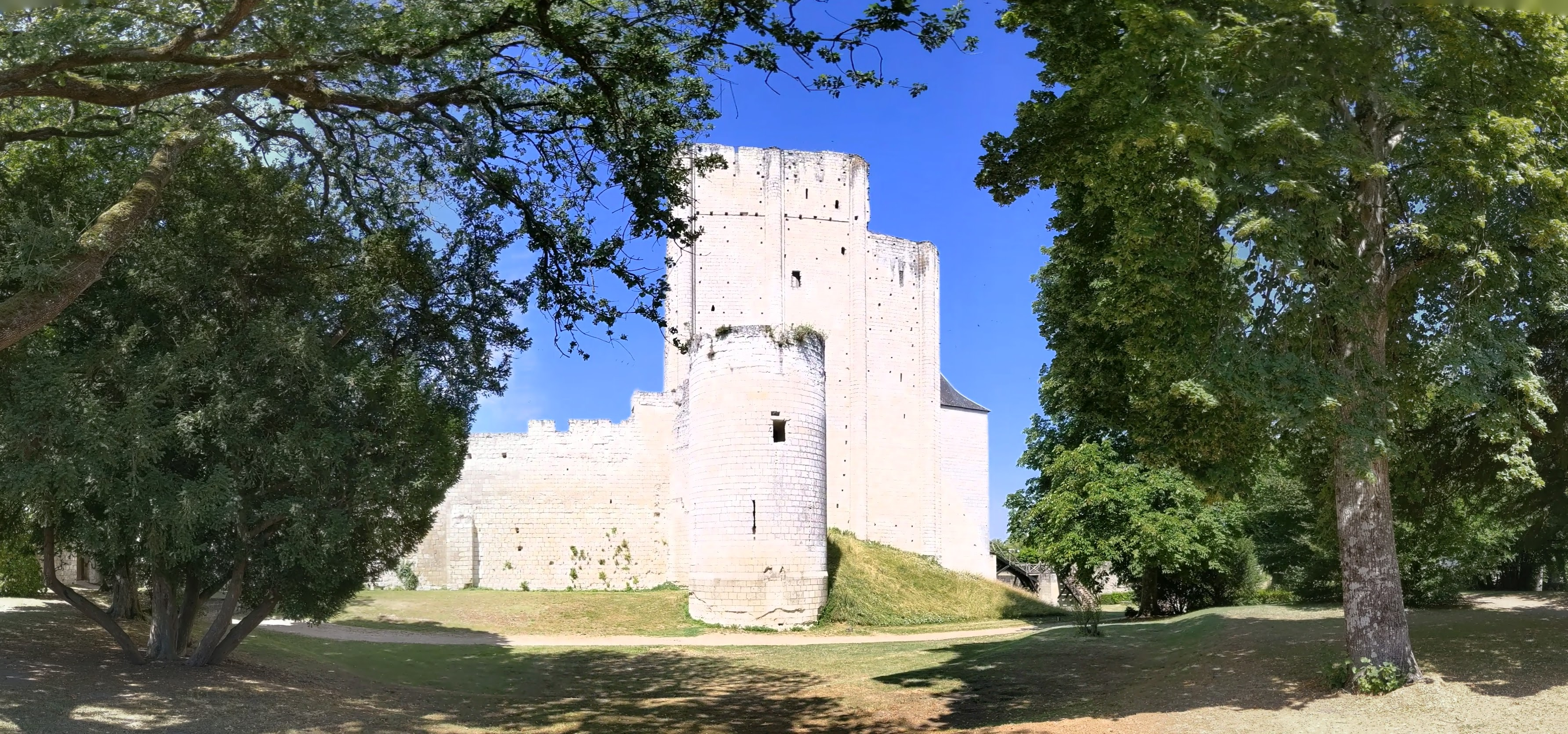 The dungeon at Loches, park View from the East, within the fortification.